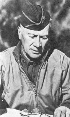 General Lloyd Fredendall from [1]